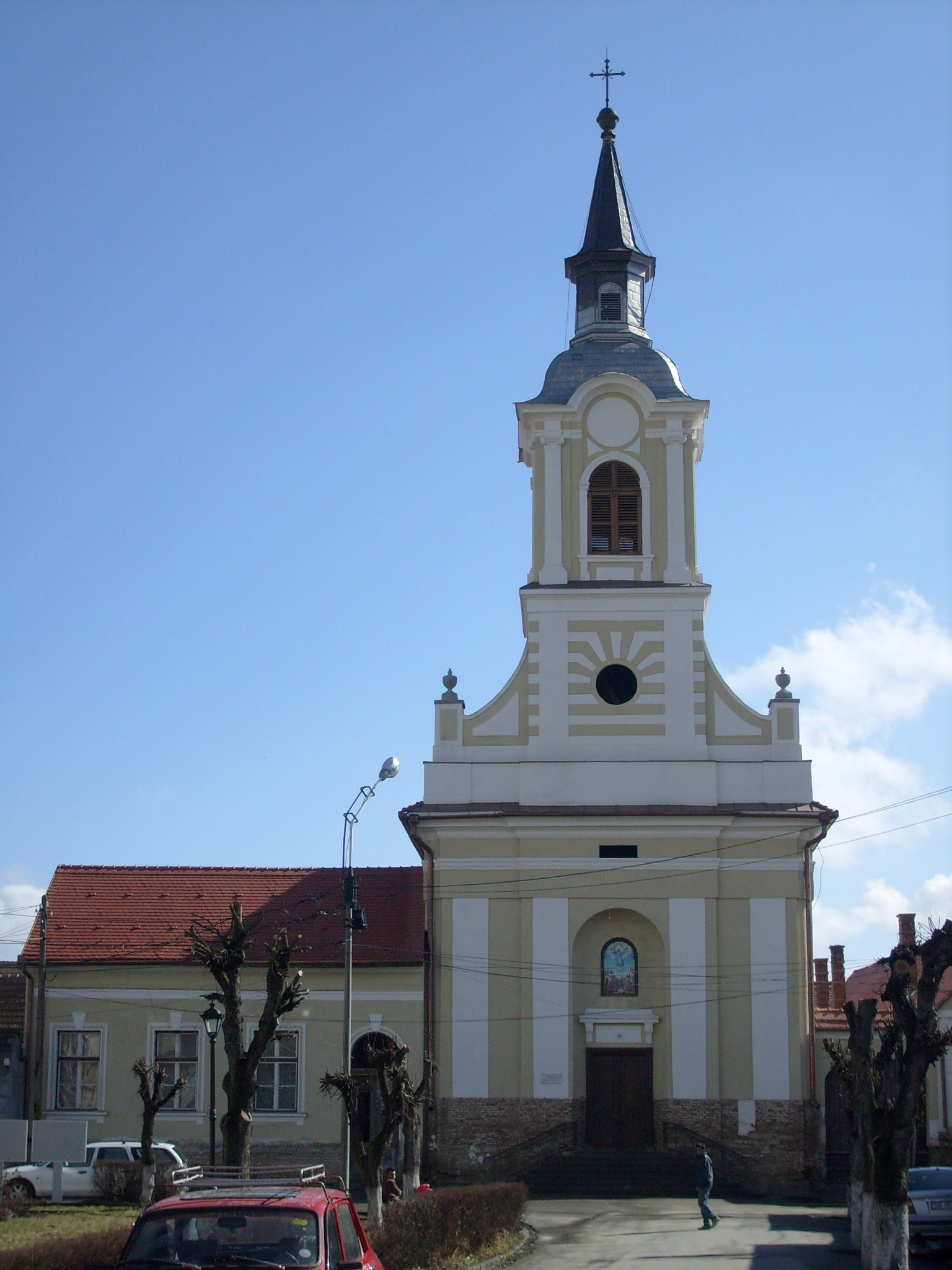 Bob Church in Mediaş.